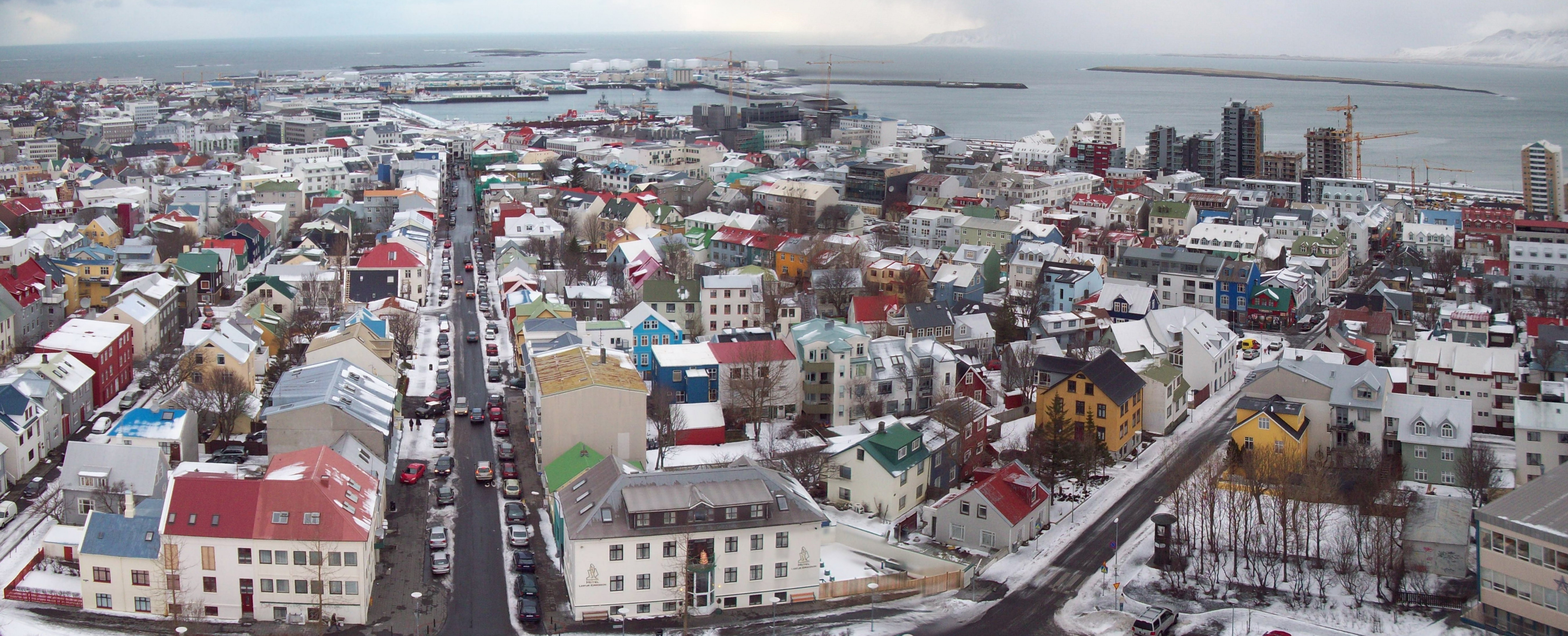 Reykjavík seen from the bell tower of Hallgrímskirkja (Church of Hallgrímur)